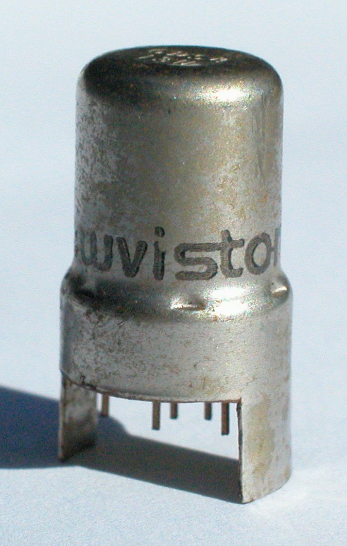 6DS4 Nuvistor vacuum tube made by RCA, 1960s